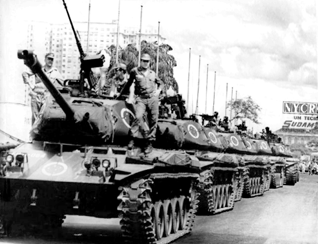 File:Tanques ocupam a Avenida Presidente Vargas, 1968-04-04.jpg remasterized and recoded as minified PNG.